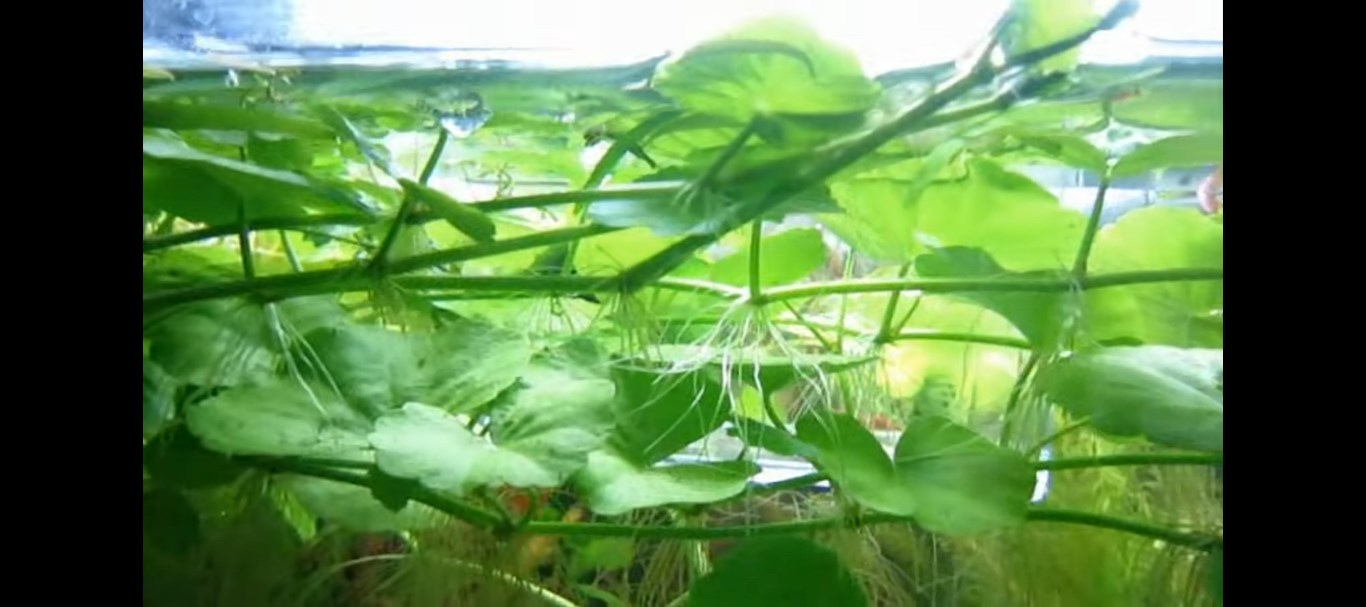 Hydrocotyle Leucocephala floating in water surface